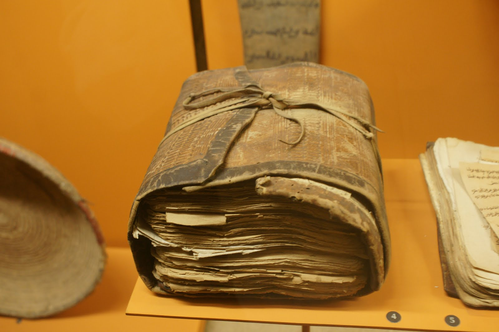 Old Quran book from American Museum of Natural History, New York